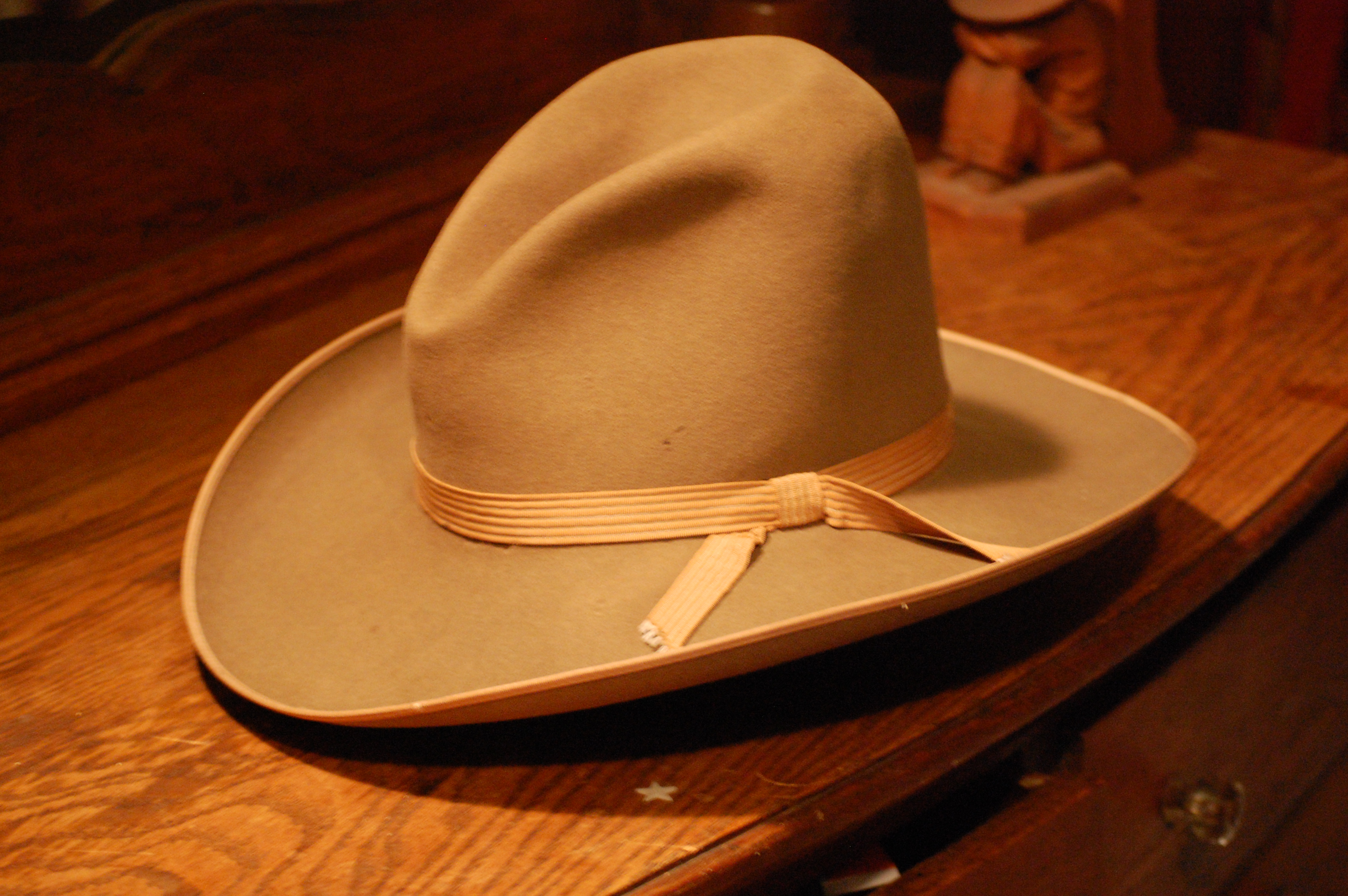 Cowboy Hat